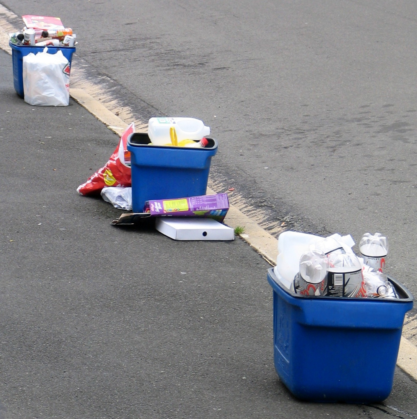 Blue household recycling bins/crates in Dunedin, New Zealand